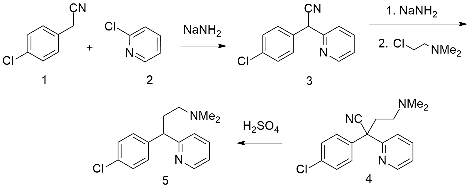 A synthetic scheme for the production of chlorpheniramine is disclosed.